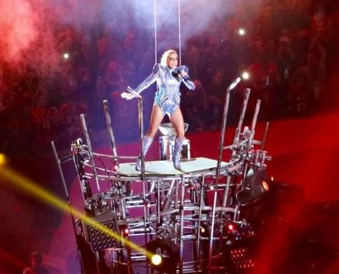 Lady Gaga performs "Poker Face" during the Super Bowl LI halftime show.